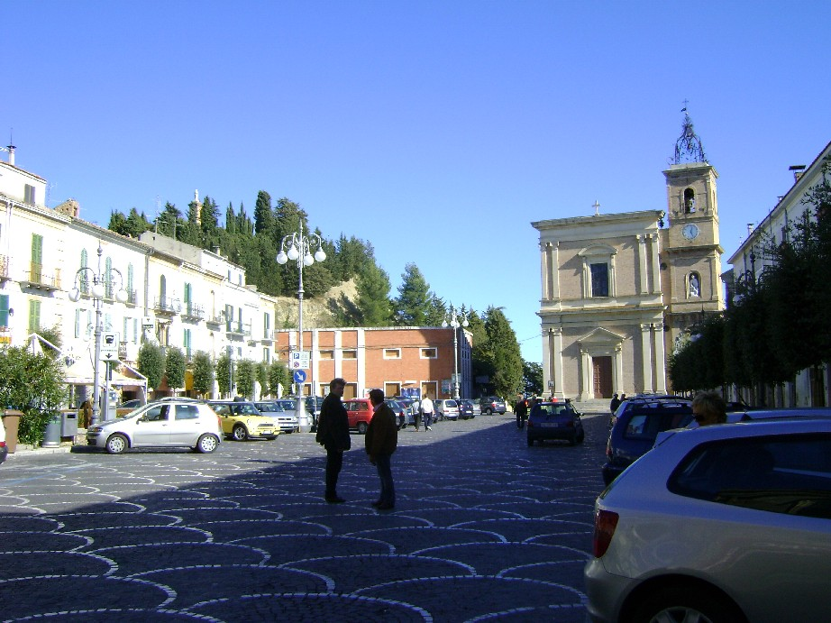 Garibaldi square and the church of St. Rocco to Atessa